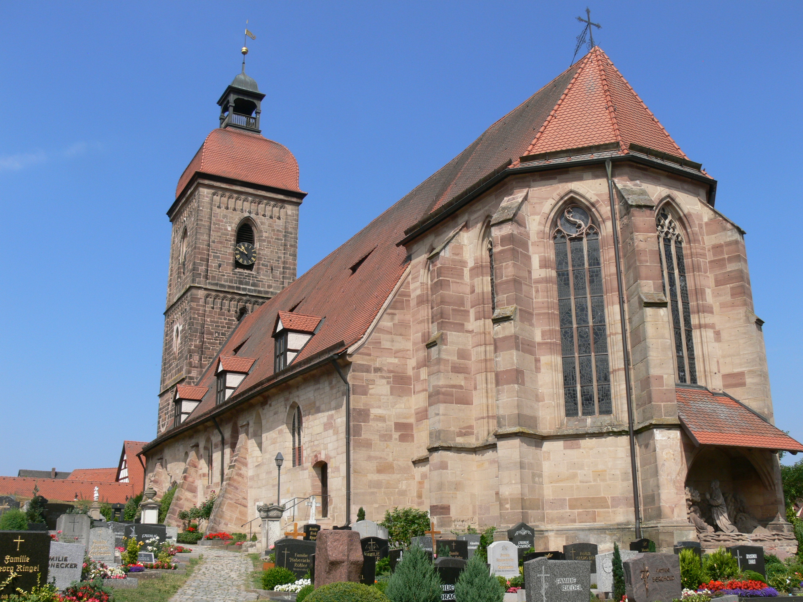 St.Lawrence church in Roßtal